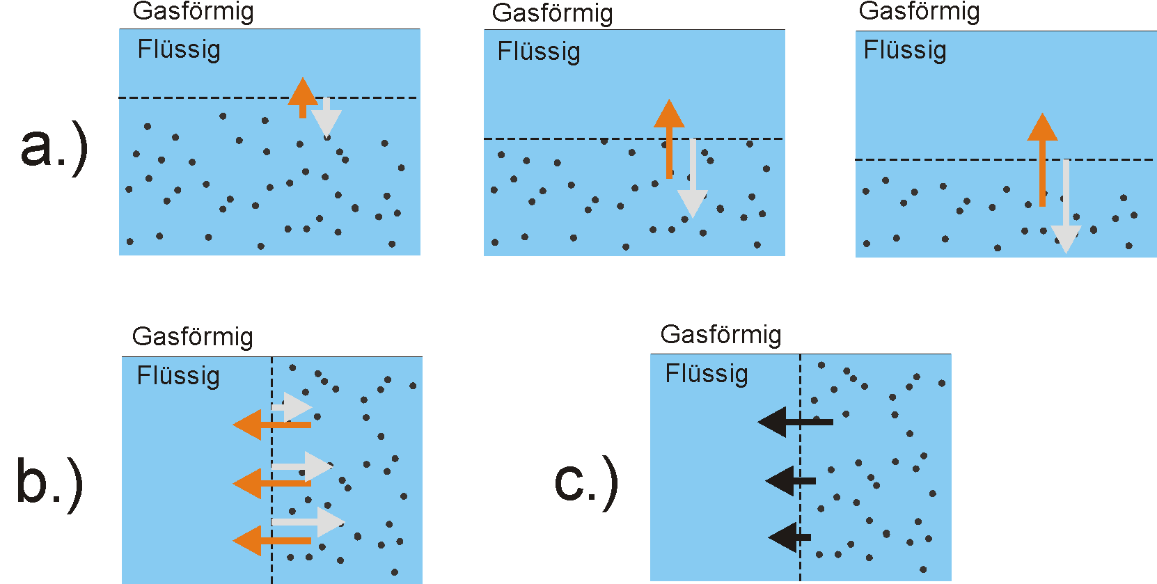 Description of forces on a liquid-vapour interface